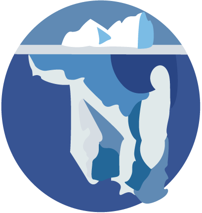 The Wikisource logo.